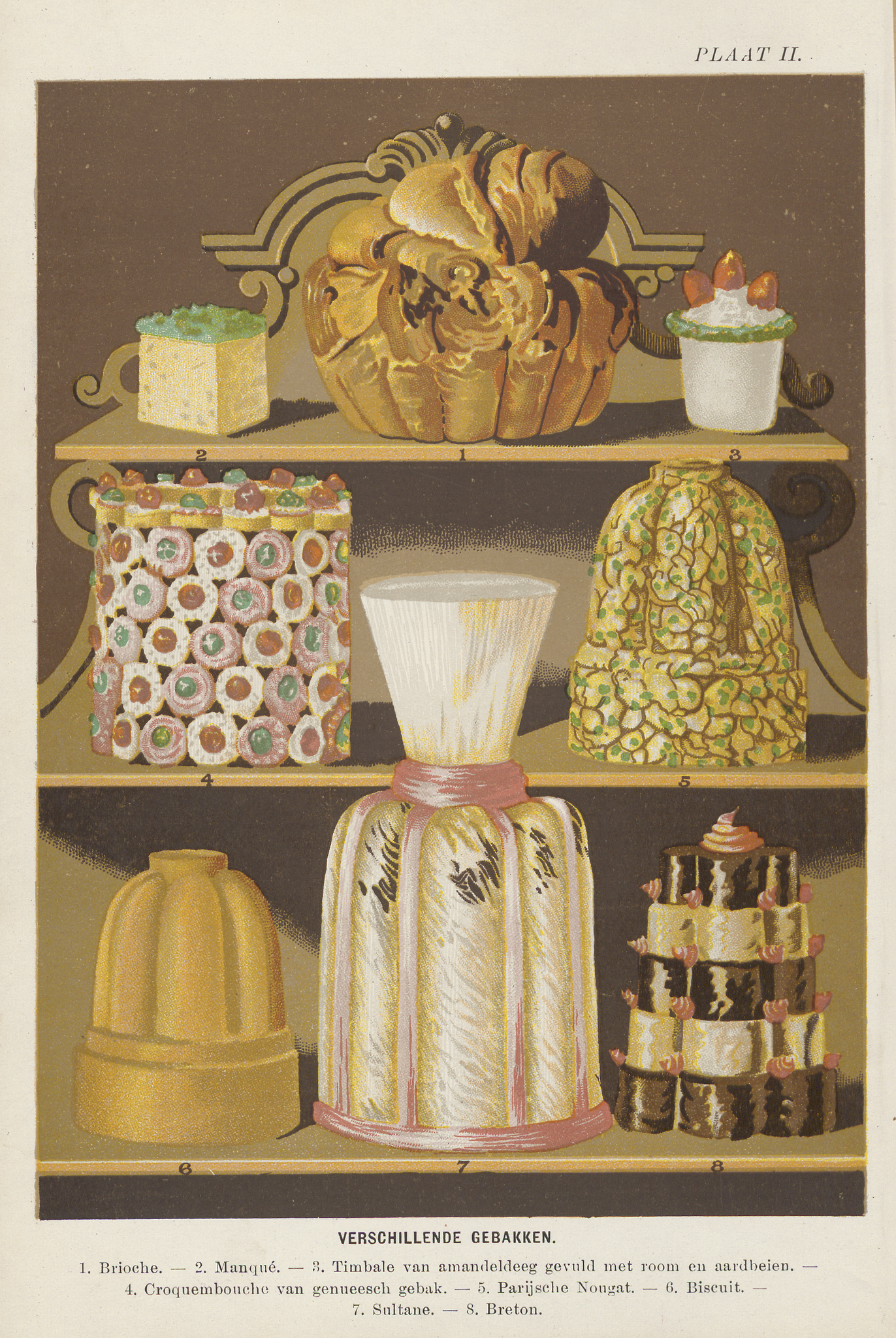 The first colour plates in cookery books began to appear after 1850. They make the cakes from French chef Jules Gouffé appear extra appetizing. Call nr. KG 12-115